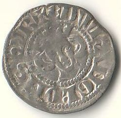 An Edward I hammered silver penny minted in Lincoln